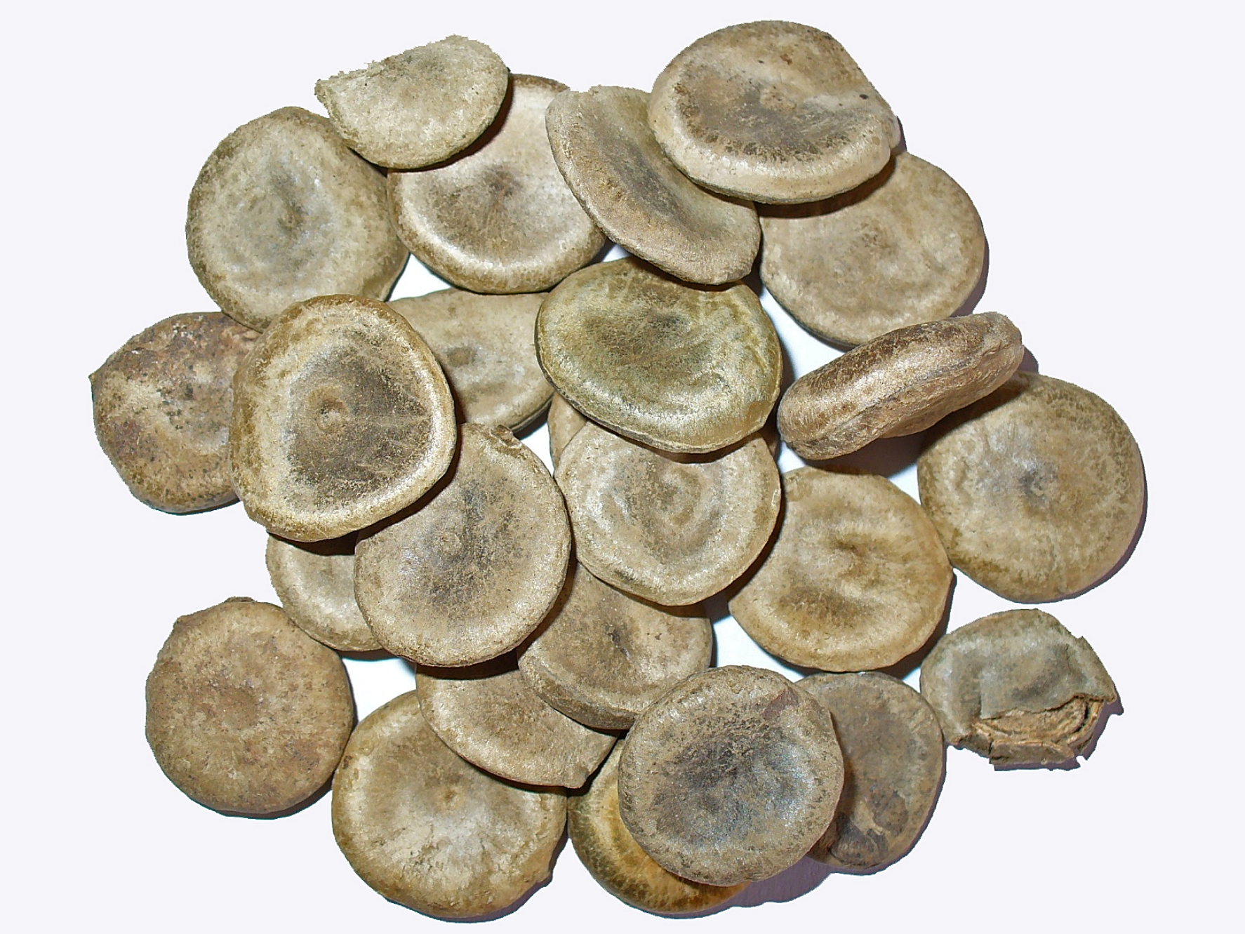 Strychnos nux-vomica, Strychnine tree, seeds. Private collection, therefore not geocoded.